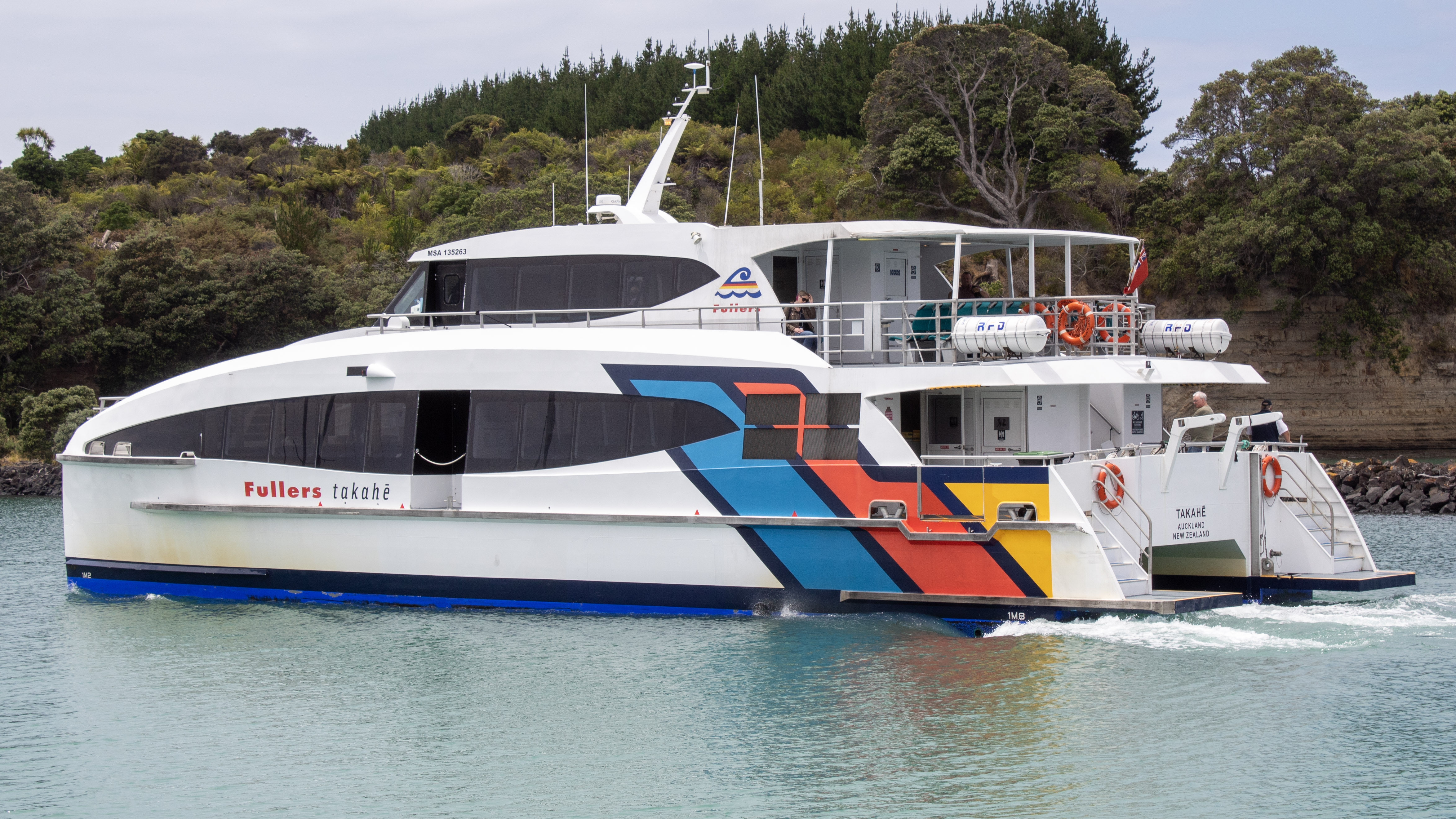 Takahe